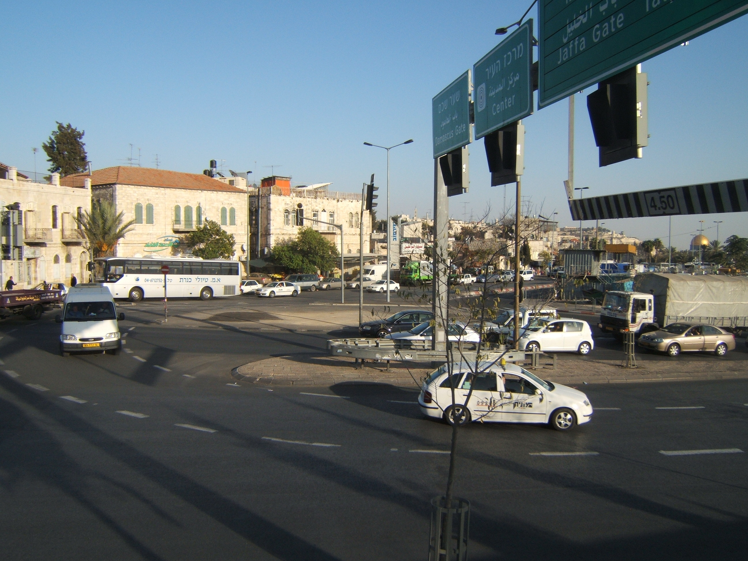 Highway 60 (Jerusalem Municipal Road 1) crossing Street of the Prophets. The Dome of the Rock can be seen in the far right background.